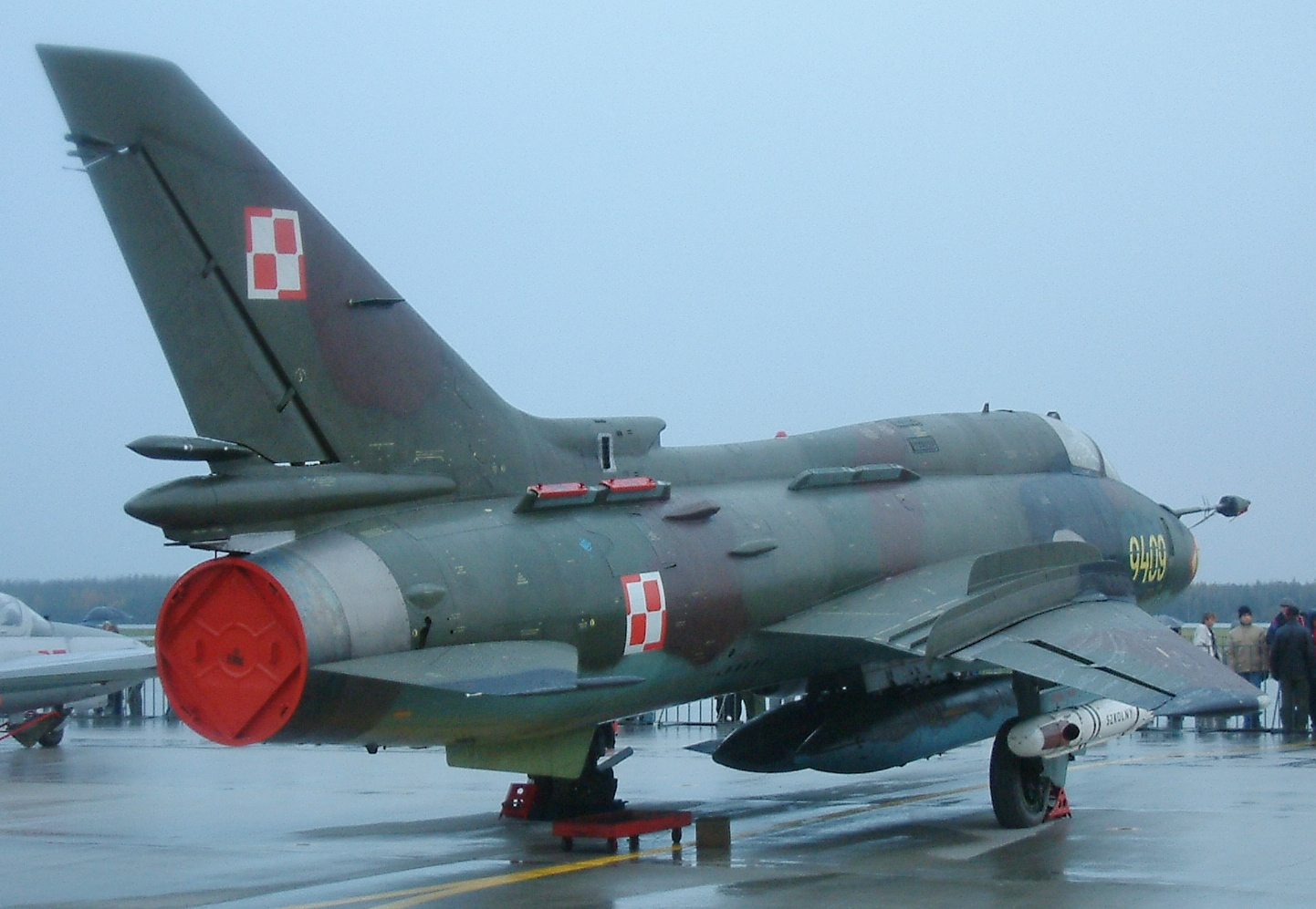 Su-22M4K (Su-17M4K) #9409 of Polish Air Force with markings of 7th Tactical Sqd., 31st. Air Base Poznań-Krzesiny